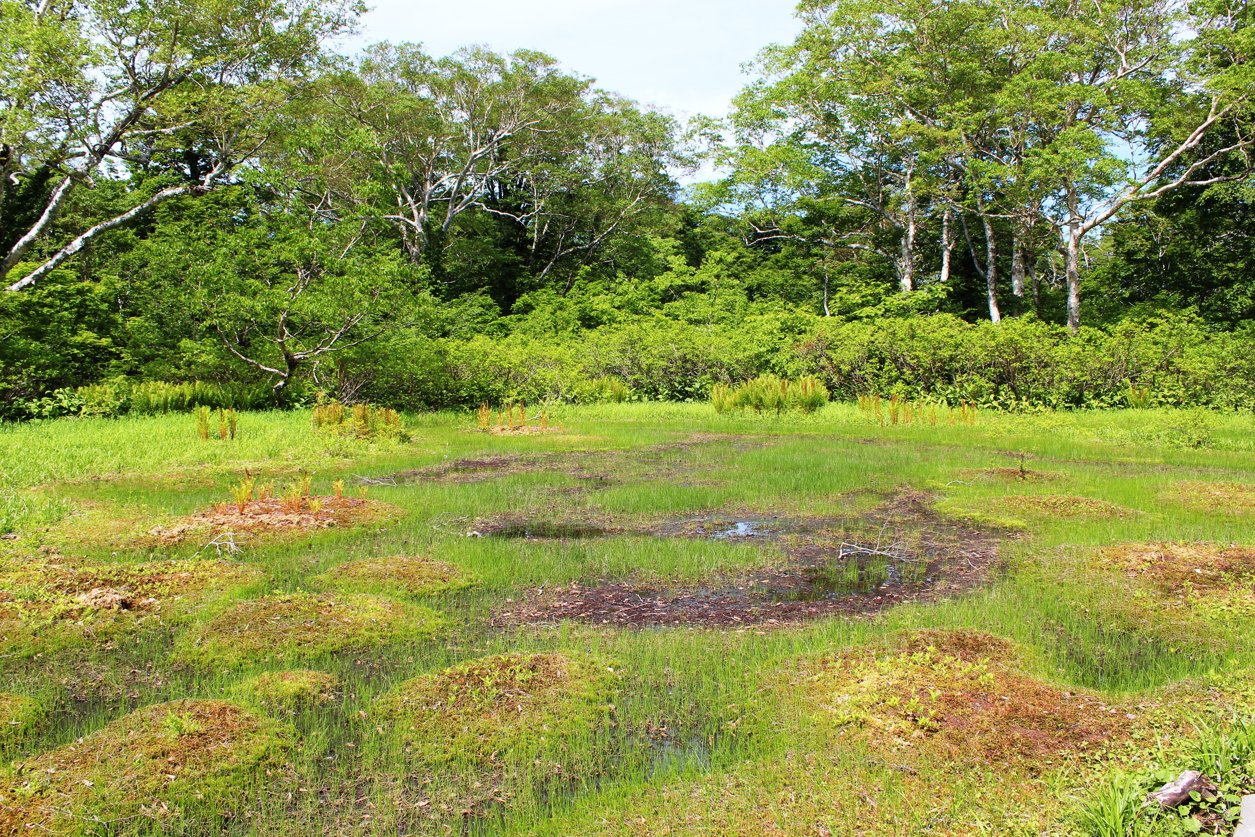 Kidaira Wetland in Mount Mominuka